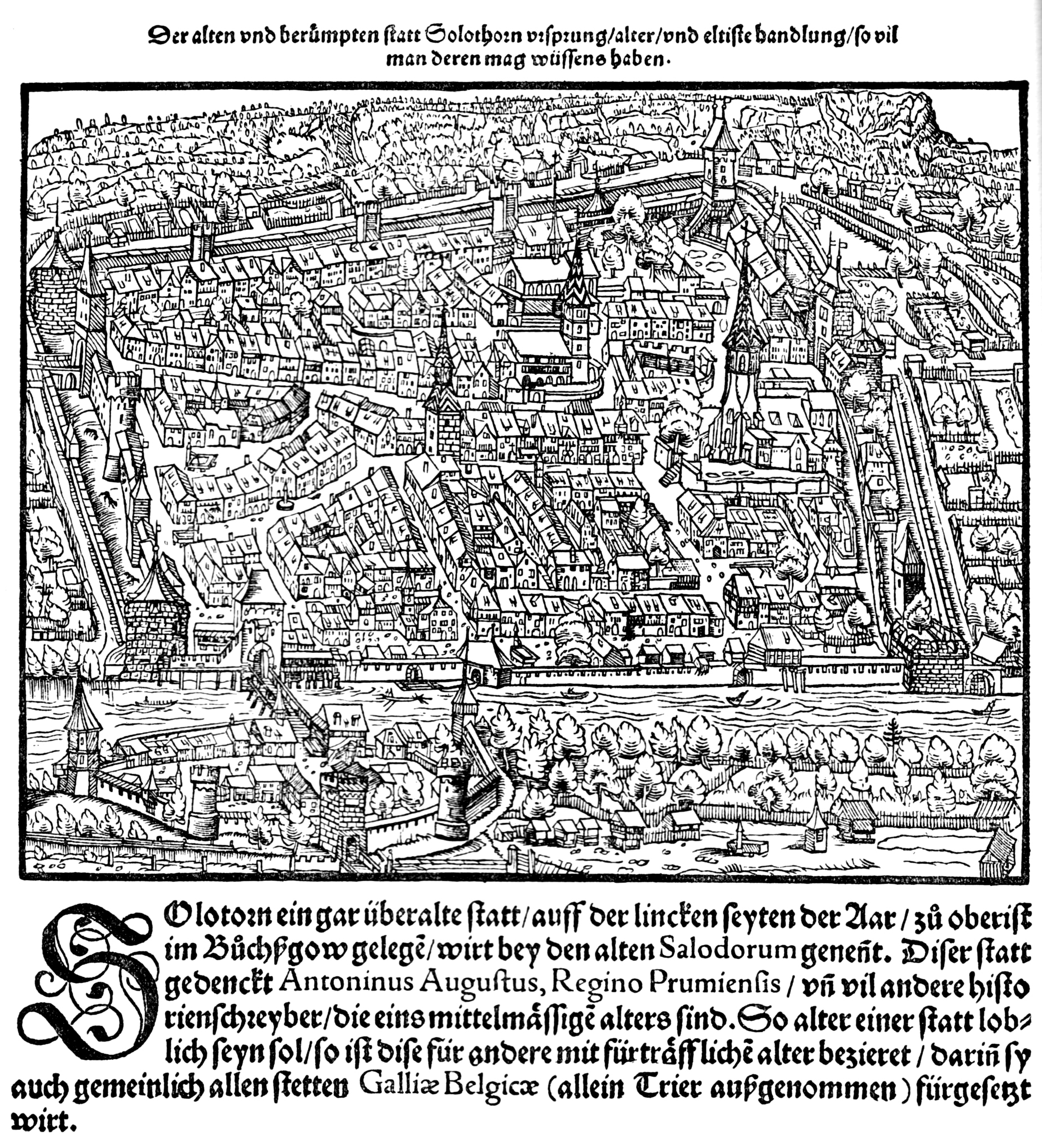 Solothurn in the year 1548, woodcut from the cronicle of Stumpf